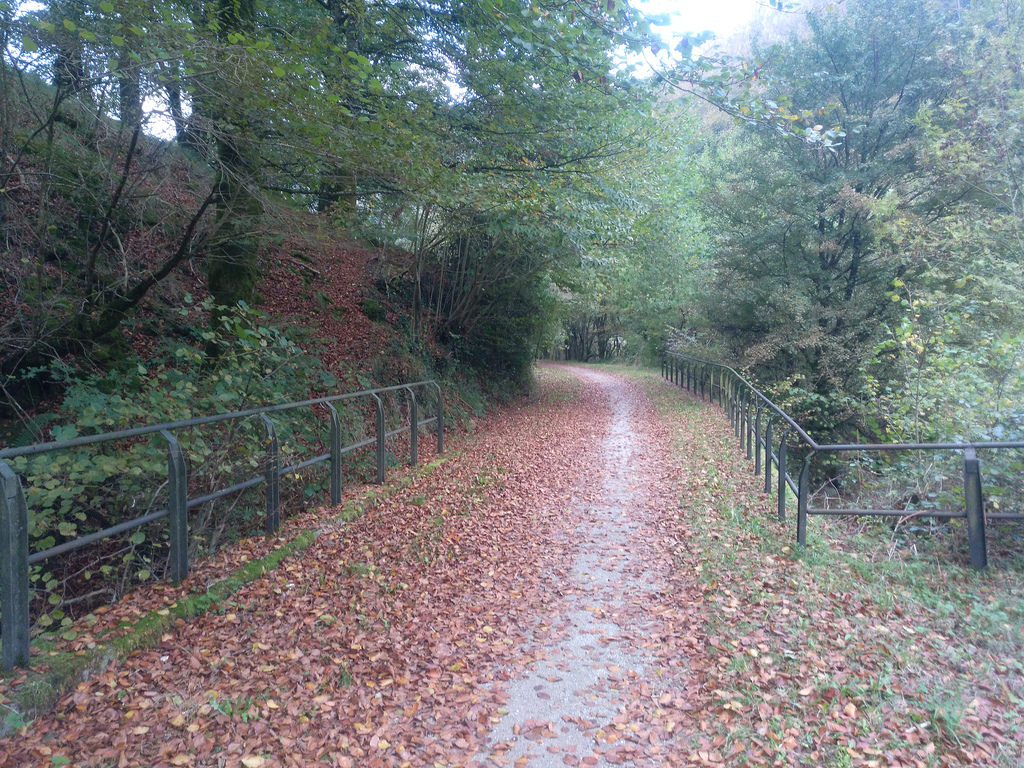 Plazaola Natur Bidea in Uitzi (Basque Country)